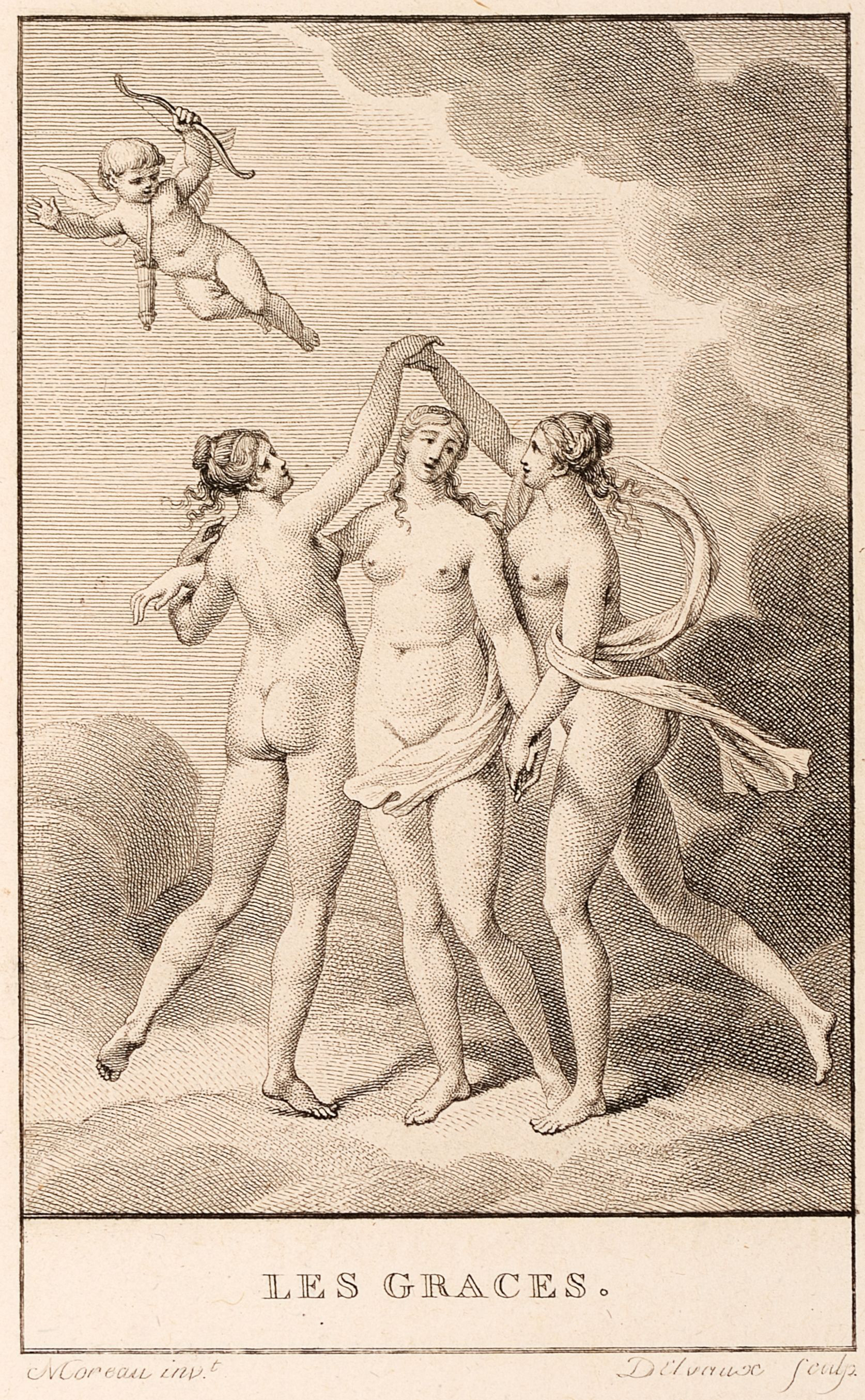 Les Graces, designed by Jean Michel Moreau le Jeune, engraved by Delvaux. (= One of 36 engravings in: Charles-Albert Demoustier: Lettres à Émilie sur la mythologie, Paris, Ant. Aug. Renouard, 1809